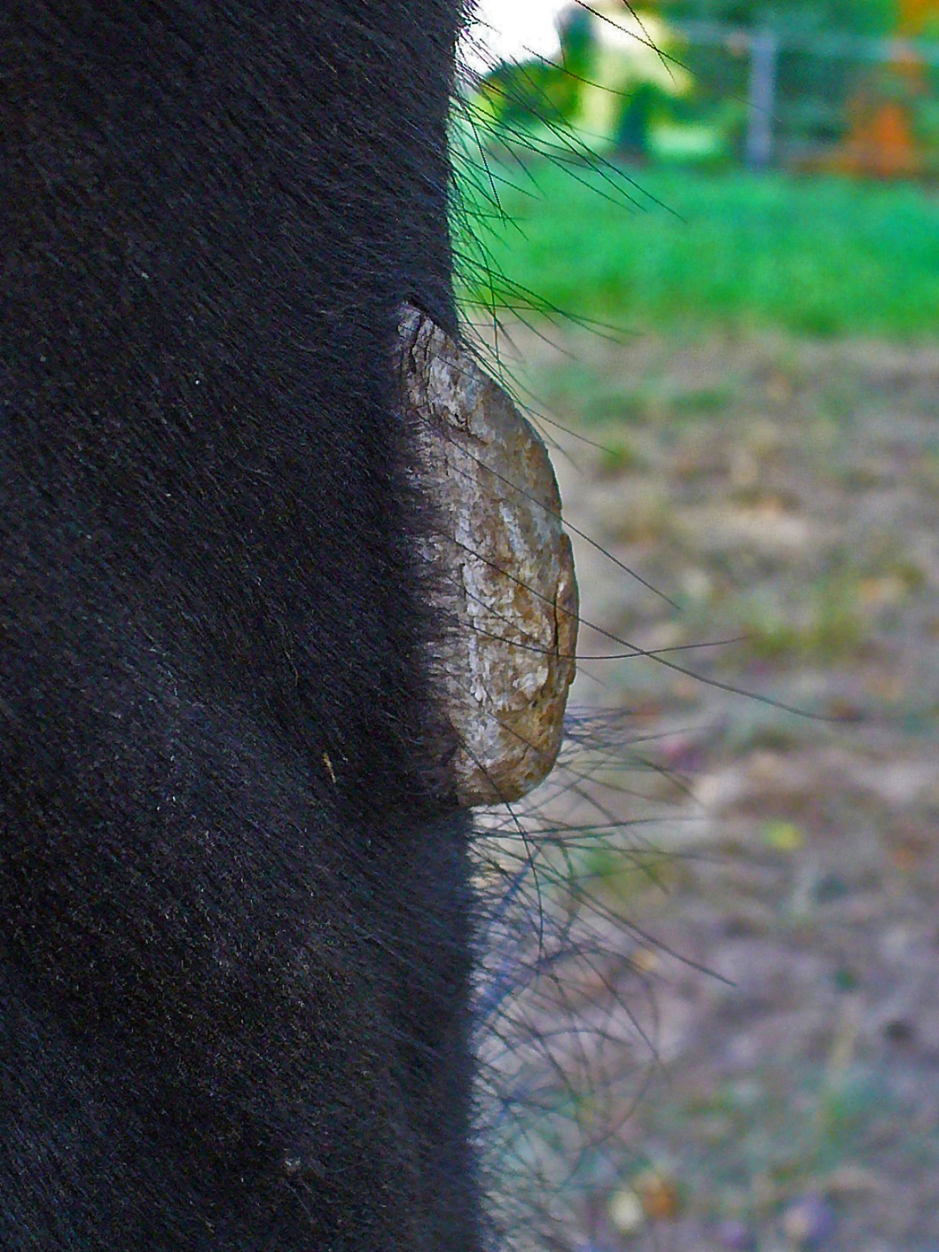 Equus ferus caballus, Equidae, Friesian Horse, “chestnut”; Karlsruhe, Germany. The “chestnut” is used in homeopathy as remedy: Castor equi (Cast-equ.)